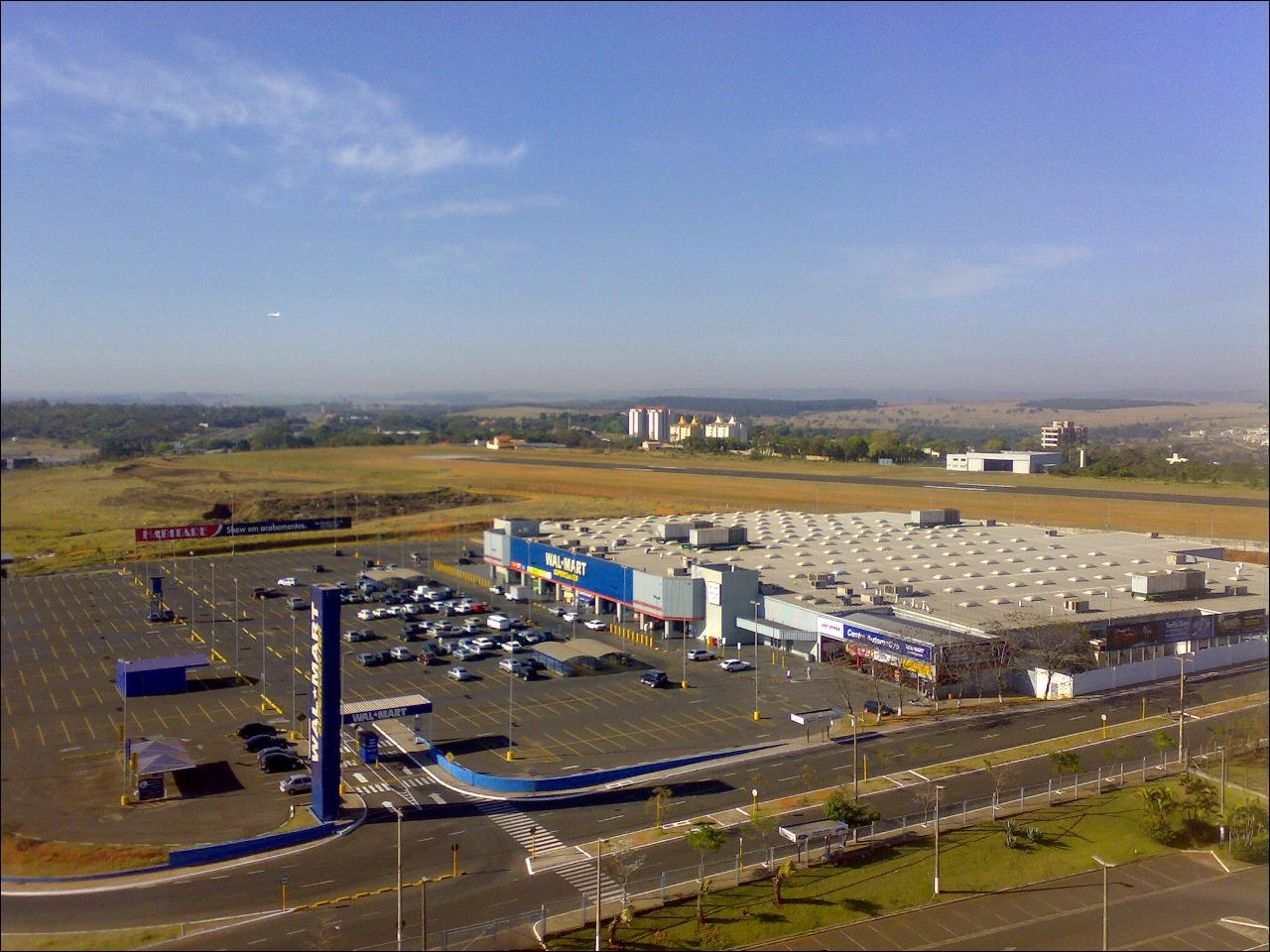 Wal-Mart Stores, Inc. in Bauru, São Paulo, Brazil.